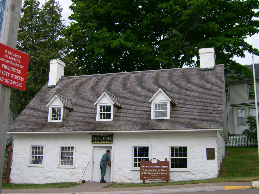 During the fur trade, this building housed John Jacob Astor's company store. For a time, the Mackinac State Historic Parks ( used this building as a memorial to post surgeon Dr. William Beaumont who wrote the book on the digestion system of the human body. Today, its a museum to the fur trade which made Mackinac Island the seat of the Northwest Territory.